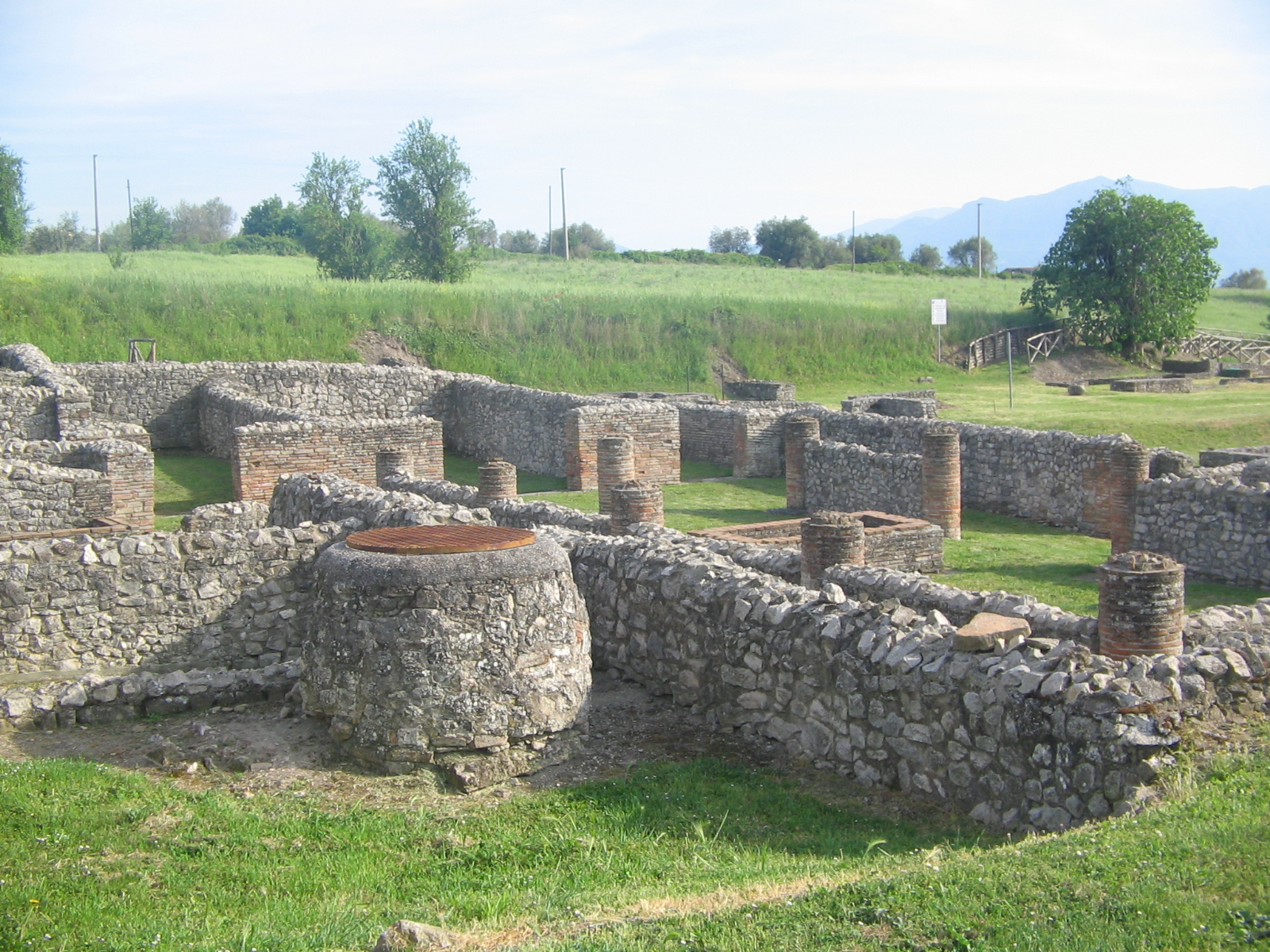 View of the ruins in the archaeological park of the Ancient Roman town of Aeclanum.